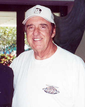 Jim Nabors